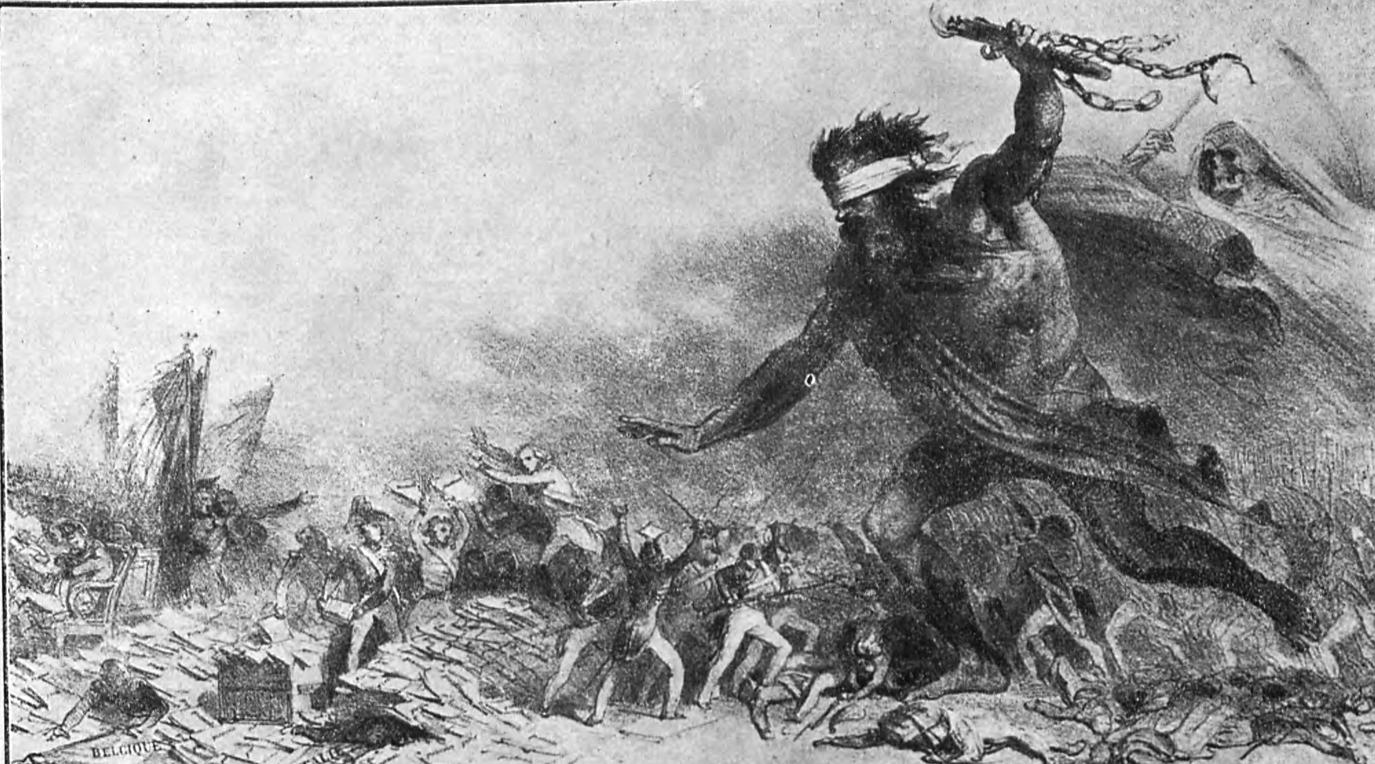 "Barbarism and Cholera enter Europe. Polish people fight, the powers make the protocols and France..."